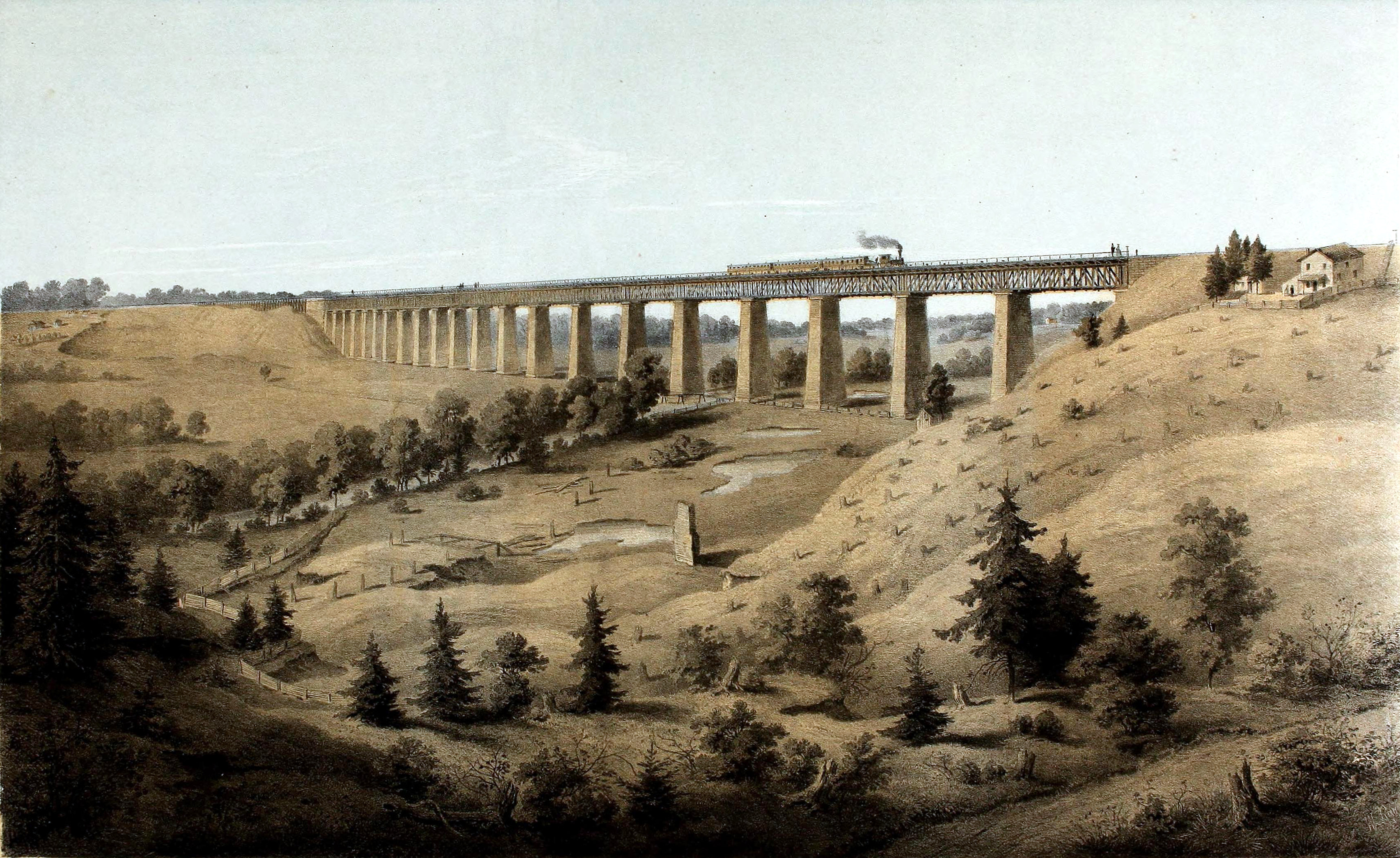 High Bridge of the South Side Railroad in Prince Edward County, Virginia, United States. The bridge was destroyed and rebuilt in the American Civil War. Today, the current bridge has been converted to a trail, and given its name to High Bridge State Park.